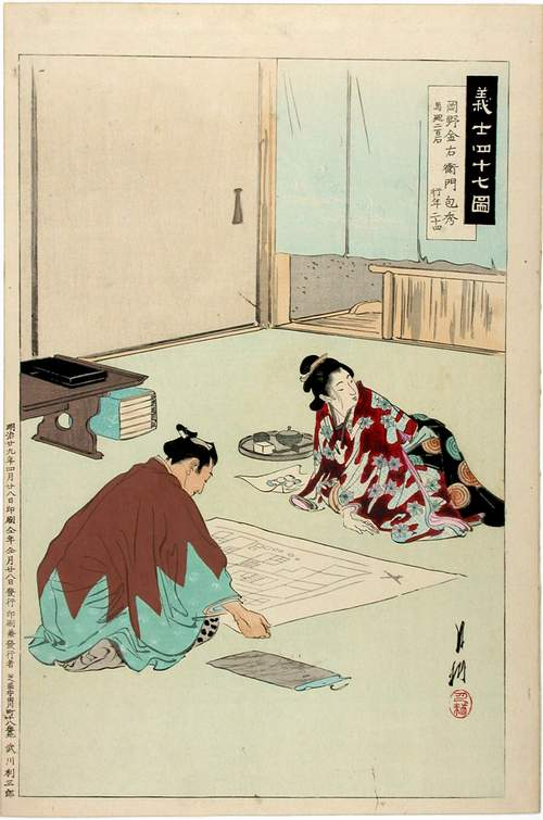 Ronin are masterless samurai. Chushingura is the true story of 47 samurai who became masterless in 1701, after their lord had been forced to commit ritual suicide (seppuku) for assaulting a court official who had insulted him. They avenged him by killing the court official after patiently planning for over a year. They were themselves then forced to commit seppuku.